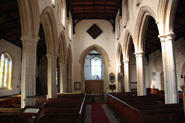 St.John the Evangelist's nave